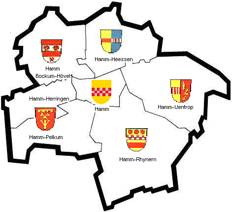 Map of the city Hamm and its boroughs